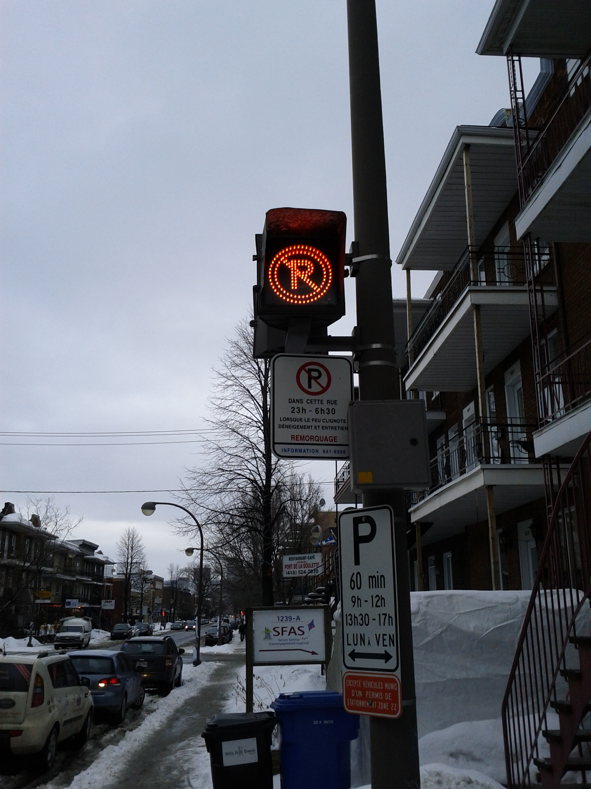 Flashing signs installed in the streets inform drivers of parking restrictions for snow removal in some of Quebec City's boroughs.